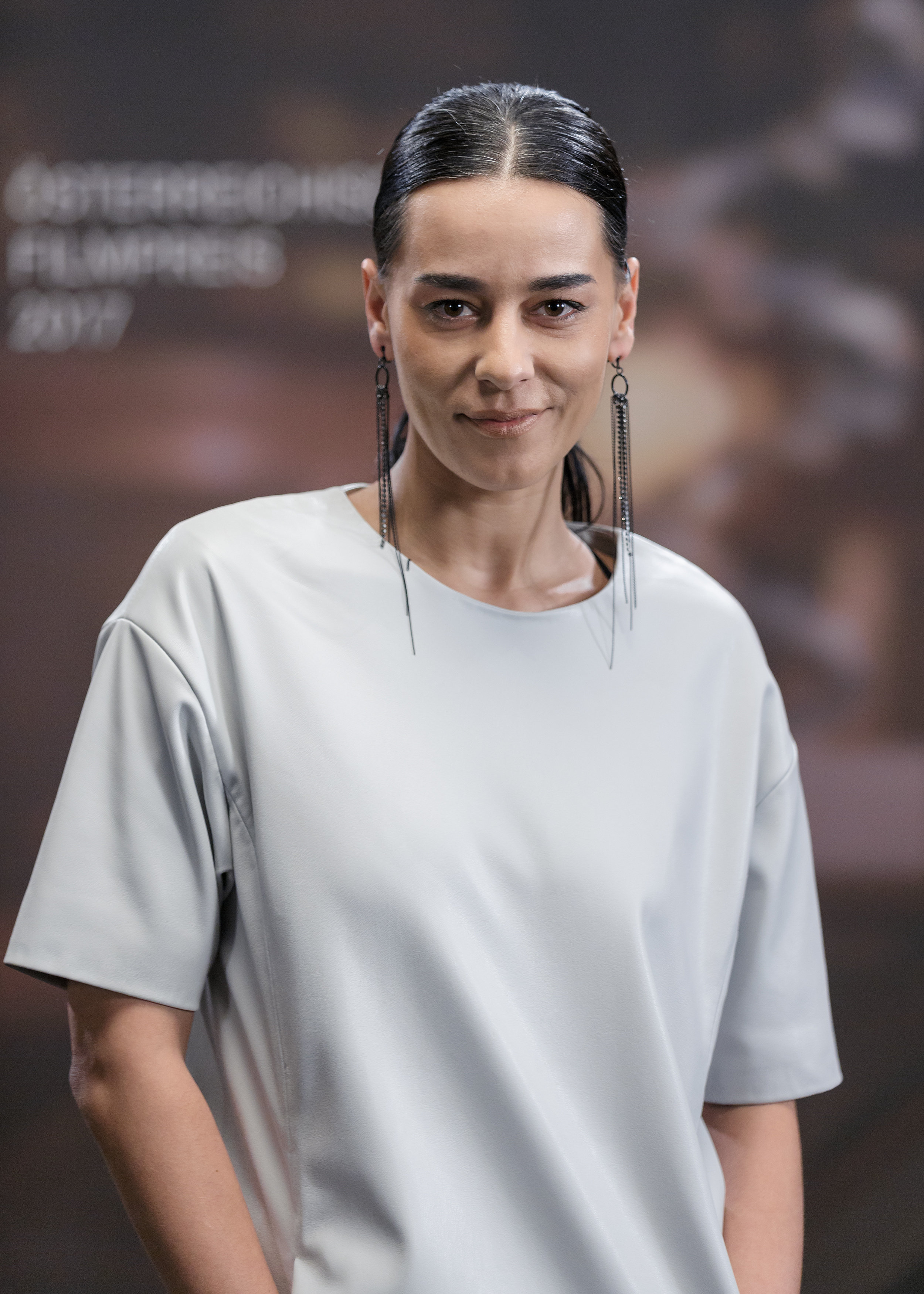 Edita Malovčić at the Austrian Film Awards 2017 (Rathaus, Vienna,Austria).